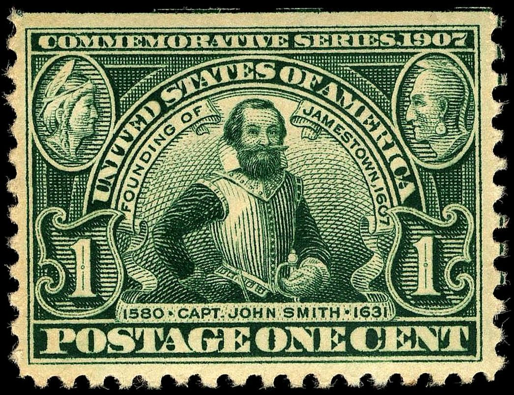 Image of Founding of Jamestown stamp, 1-cent, Issue of 1907